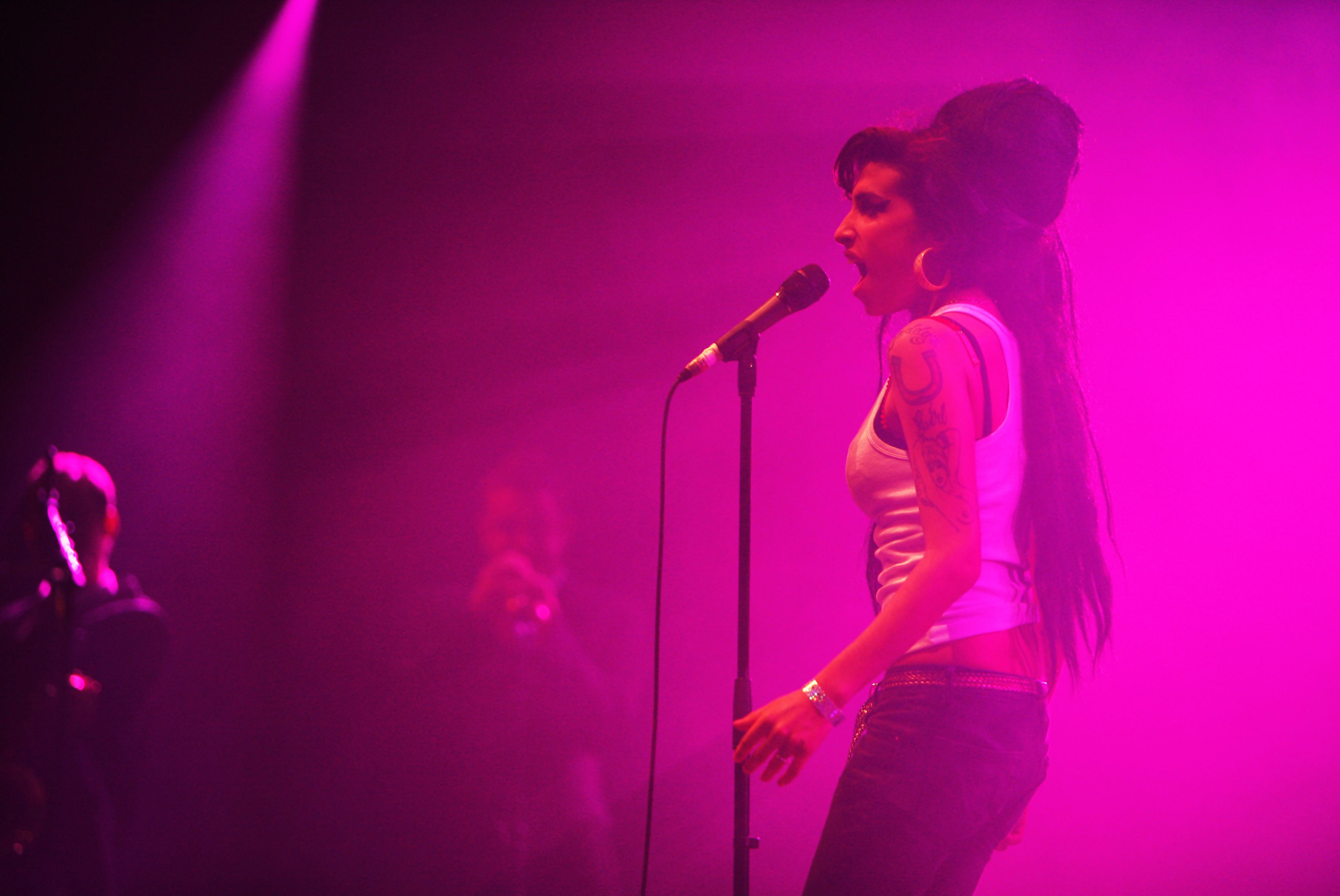 Amy Winehouse at the Eurockéennes of 2007